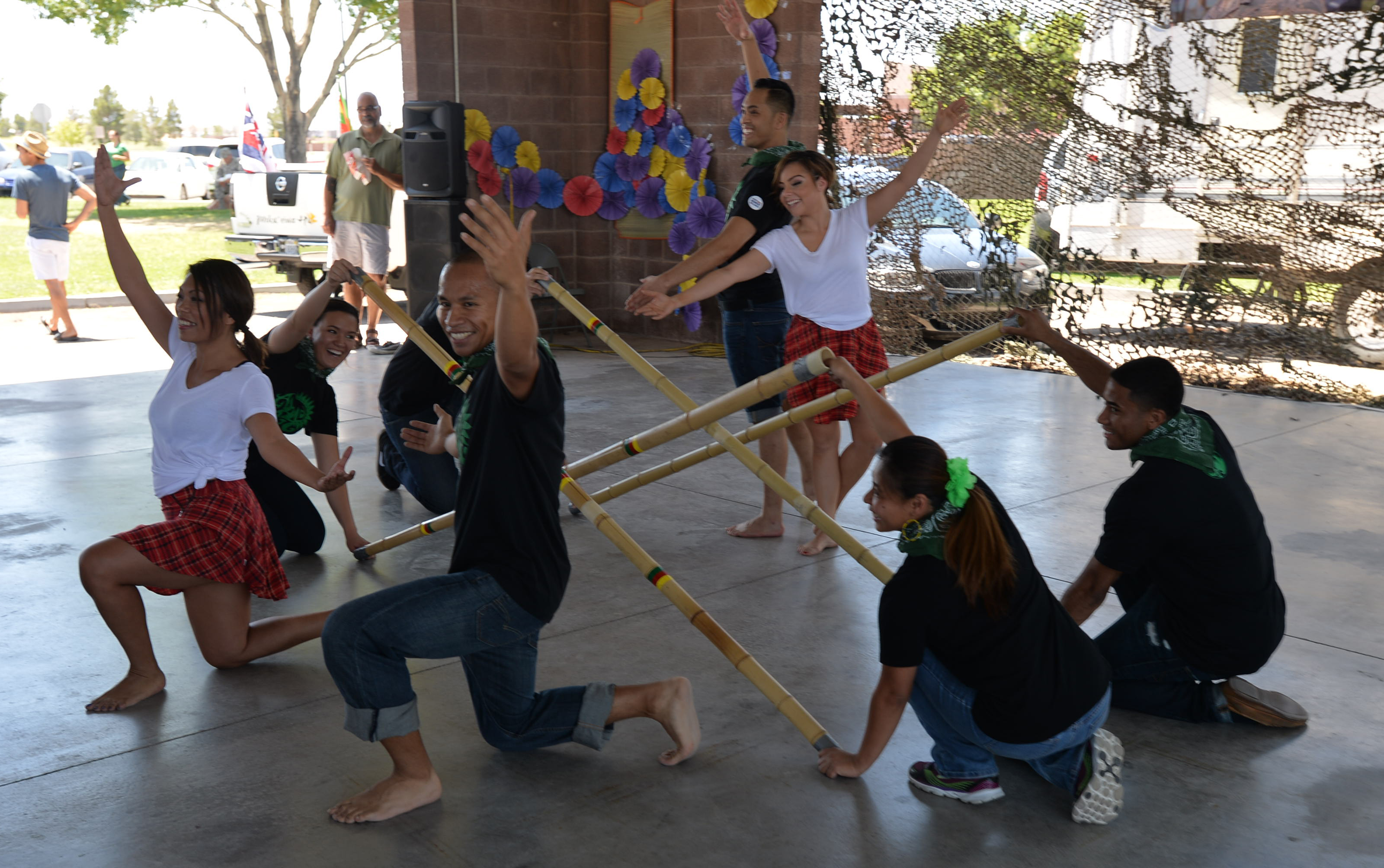 The Asian Pacific American Association dance team completes a tinikling dance May 29, 2015, at Nellis Air Force Base, Nevada. The team, led by Staff Sgt. Richard Quino, 799th Air Base Squadron vehicle management NCO in charge, front left, performed as part of the APAA luau in honor of Asian American heritage month. (U.S. Air Force photo by Senior Airman Adarius Petty/Released)